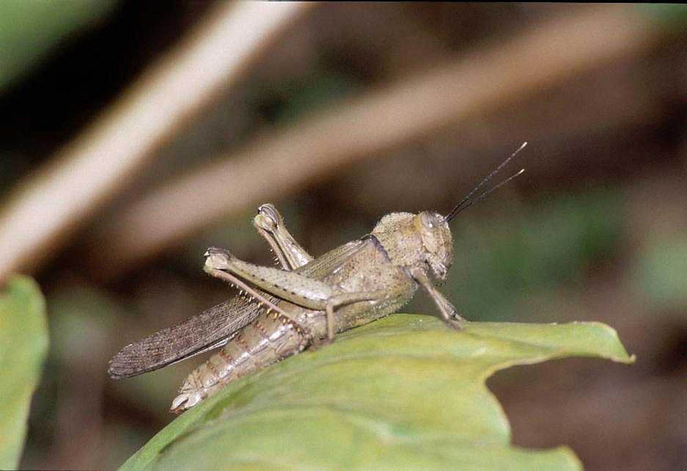 This Humpback Grasshopper (Abisares viridipennis) in Nairobi in 2002.